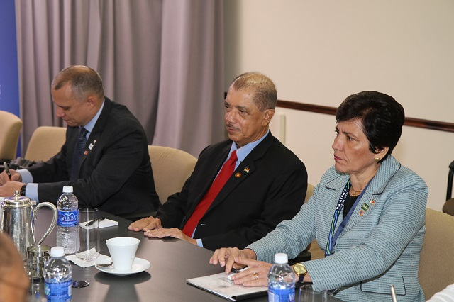 The President of Seychelles James Michel (center), Foreign Minister Jean-Paul Adam (left) and the Seychelles Ambassador to the United States Marie-Louise Potter during the meeting with Ethiopian delegation in Washington in the margins of the U.S. Africa Leaders Summit in Washington.